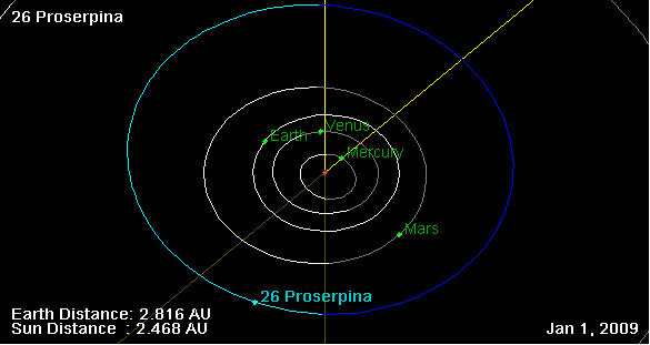 26 Proserpina orbit, and his position on 01 Jan 2009 (NASA Orbit Viewer applet)